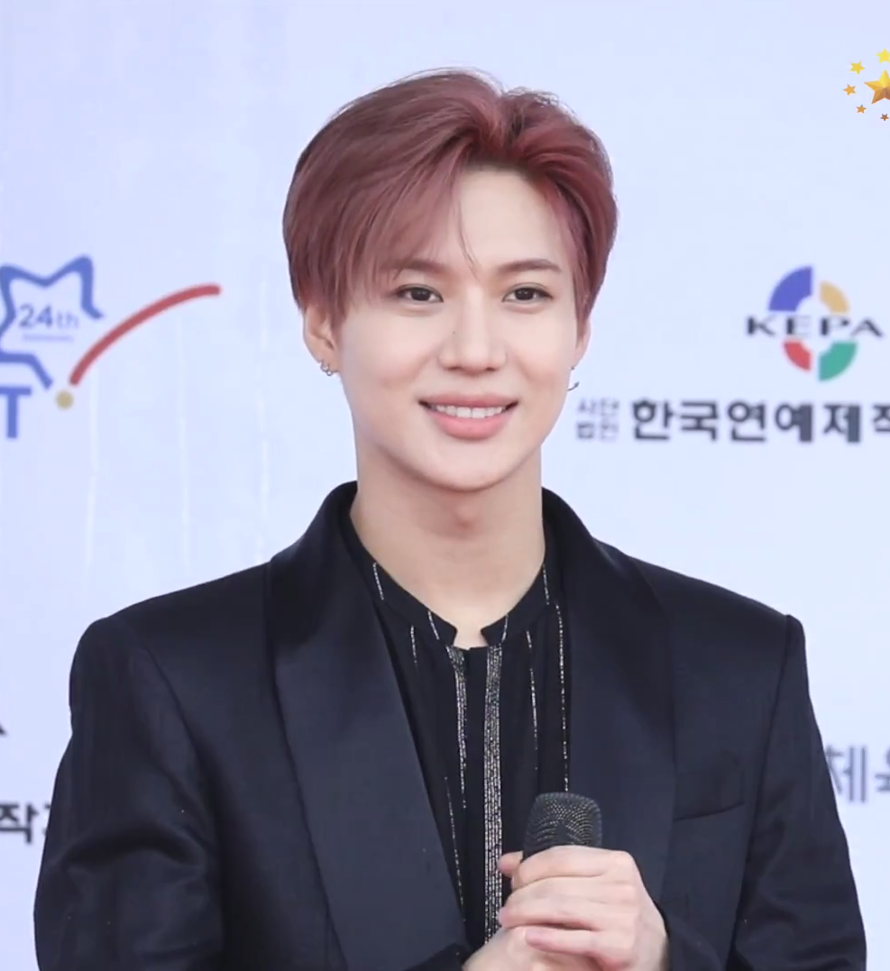 the 24th DREAM CONCERT